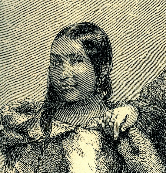 Detail of an engraving showing Tookoolito ("Hannag"), Charles Hall's Inuit translator and guide